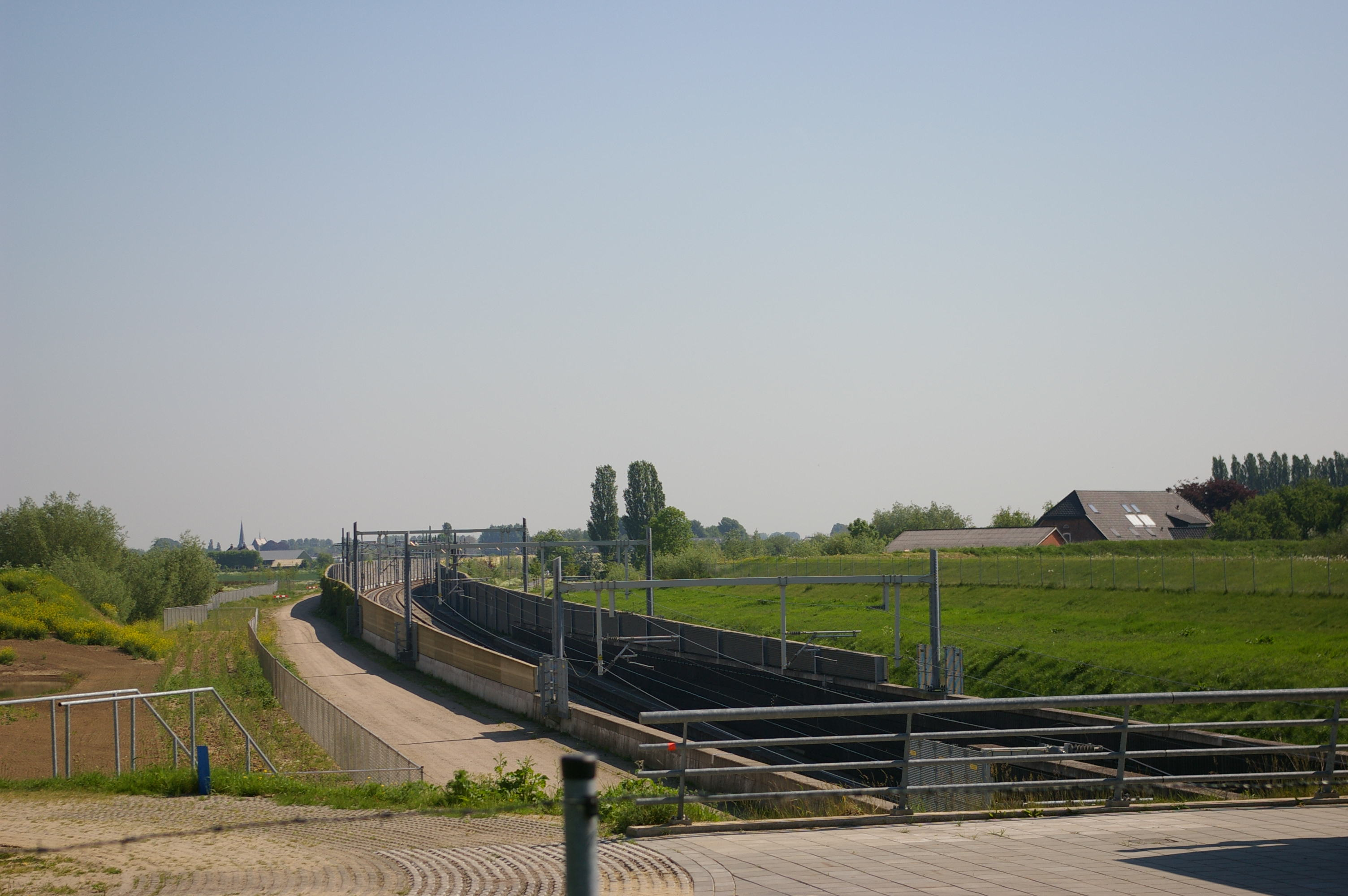 Railway tunnel in the Betuweroute goods line between Rotterdam and Germany, near Zevenaar. Used on Betuweroute